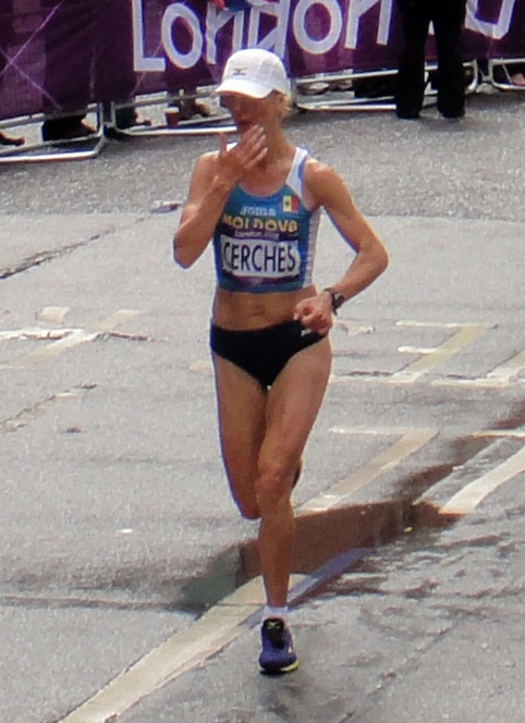 Natalia Cerches (Moldova) - London 2012 Women's Marathon